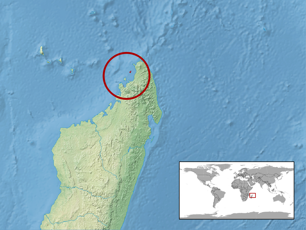 Geographic distribution of Paracontias milloti. Range according to RDB, for the IUCN definition see File:Paracontias milloti distribution.png